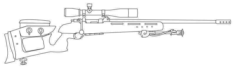 the sniper rifle GOL Sniper Magnum, realised with Inkscape.